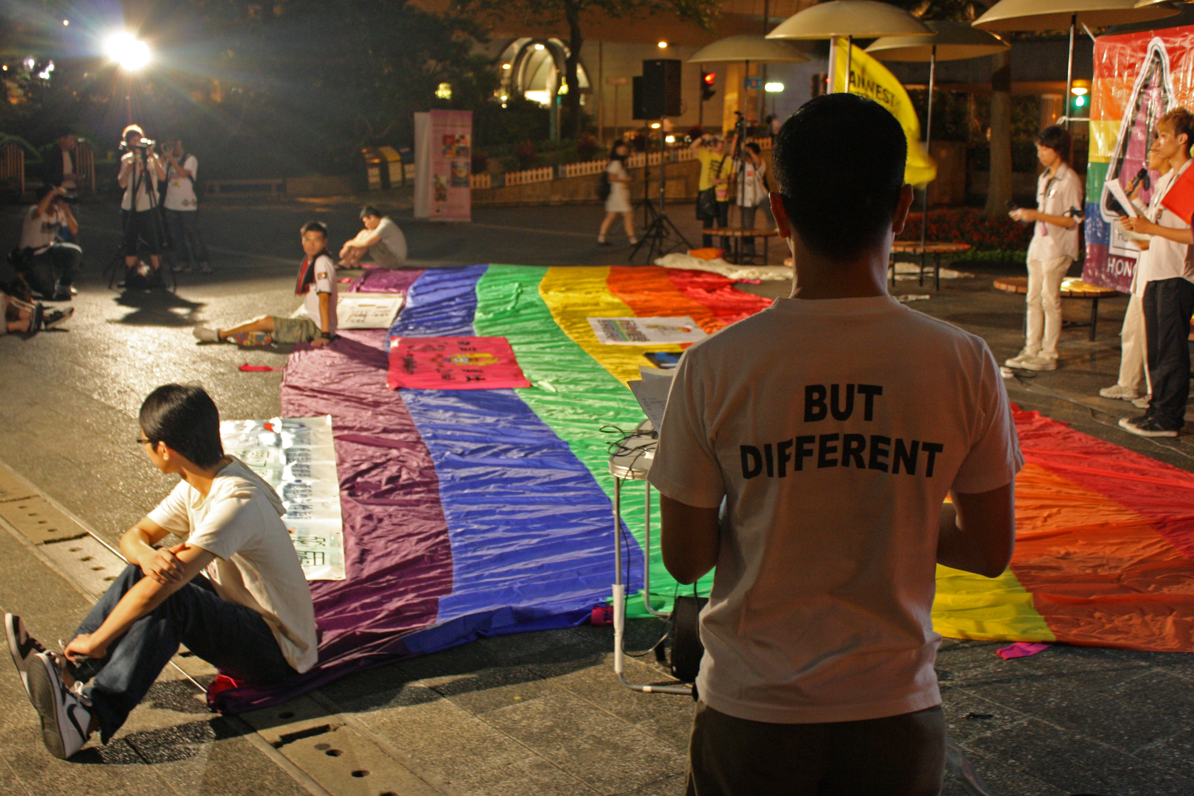 There were several volunteers and speakers from various organizations and a requisite rainbow flag. International Day Against Homophobia and Transphobia rally in Chater Square, in Hong Kong. May 17th, 2010. Feel free to tweet, blog, or in any other way share my photos. And please let me know if you see yourself in any of my pictures or if you'd like to!